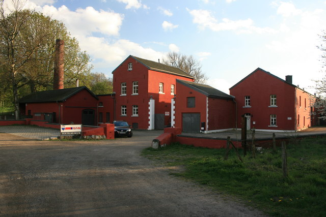 Textile museum Komericher Mühle in Aachen-Brand